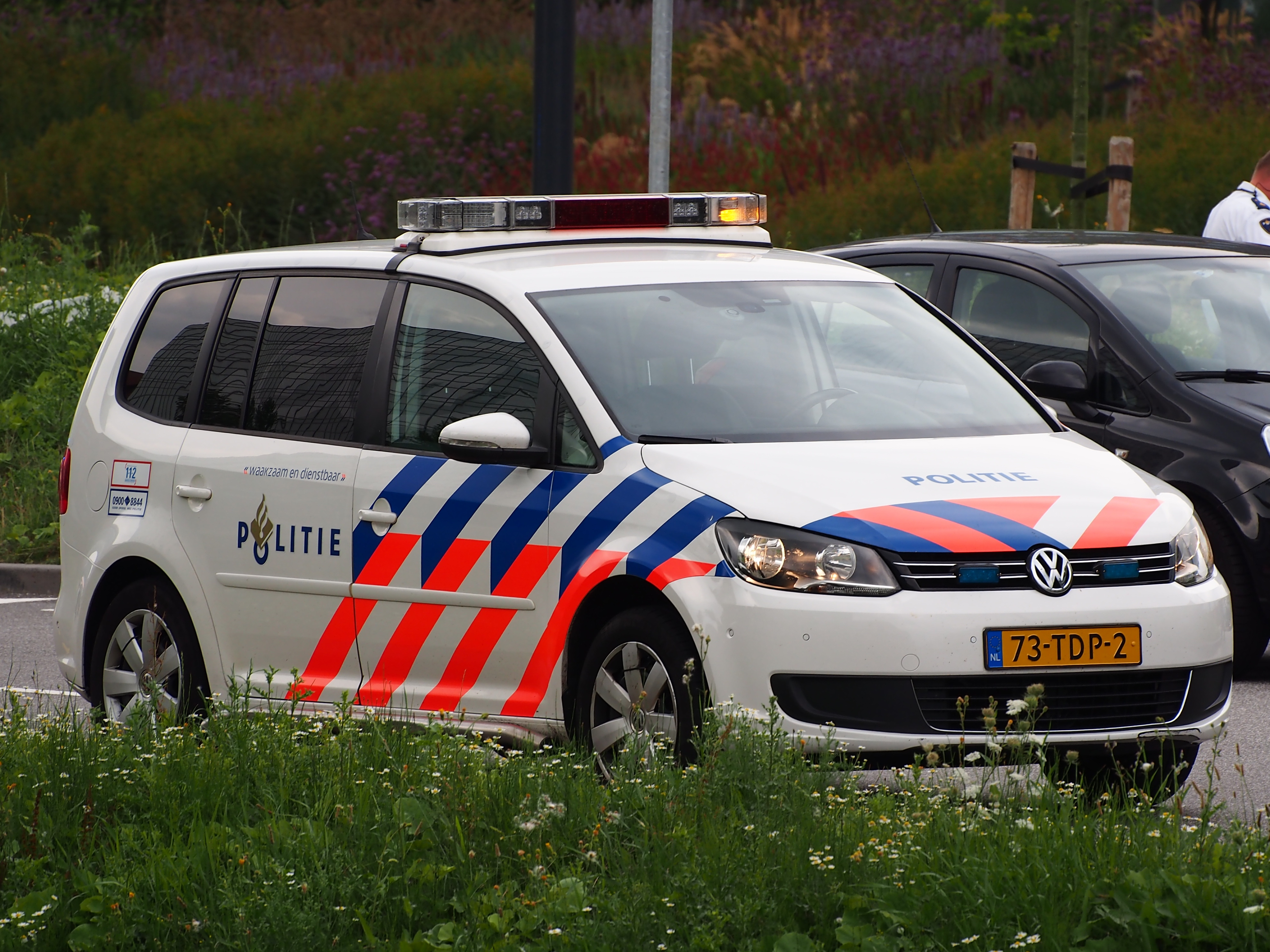 Photographed at Hoofddorp, The Netherlands.